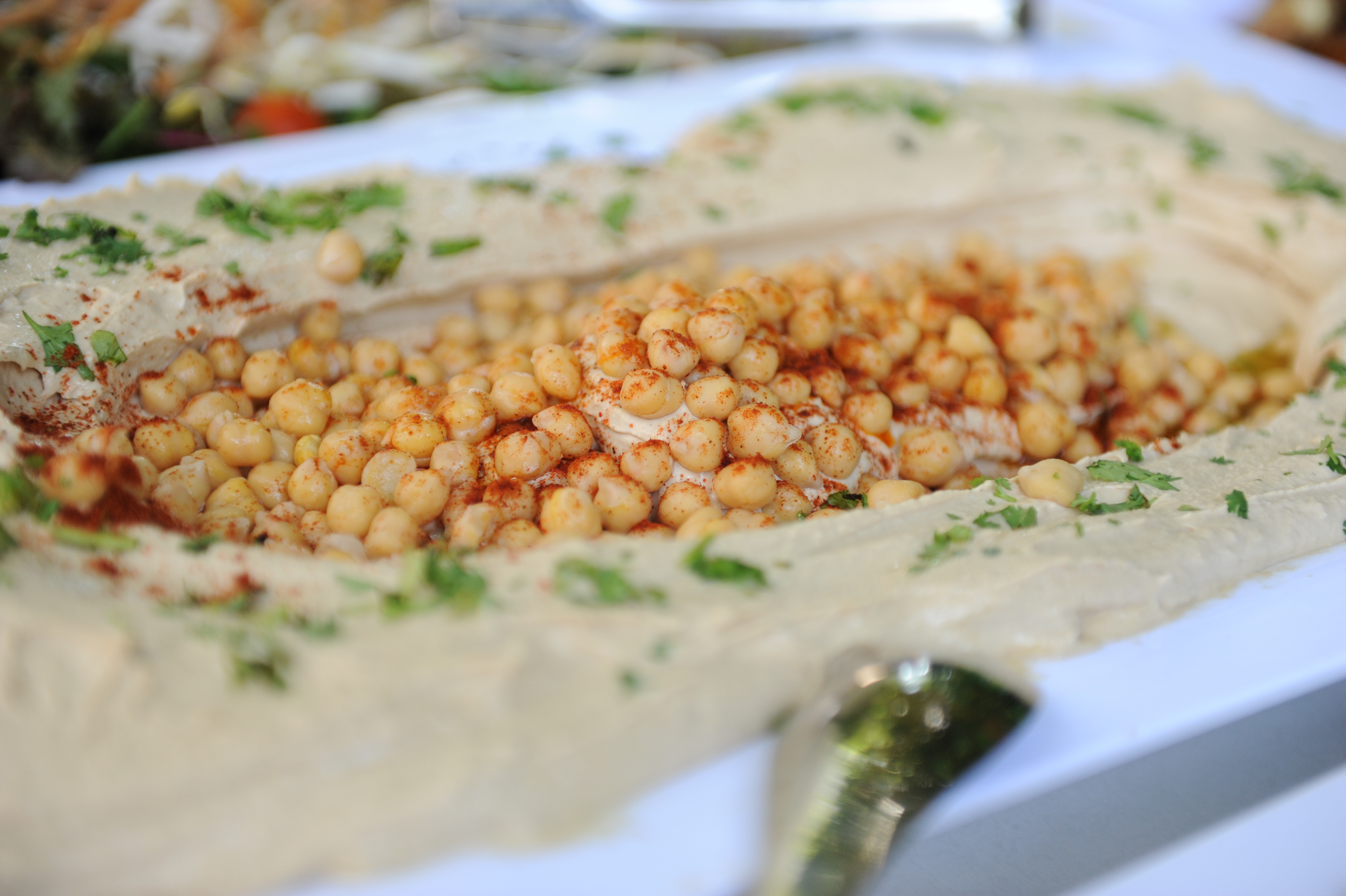 wikimania 2011 hackathon conference israel haifa hecht house